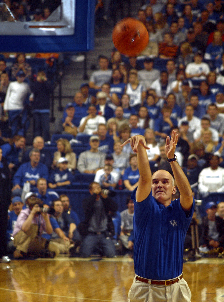 Kyle Macy at the Kentucky Wildcats men's basketball celebration of March Madness (basketball)